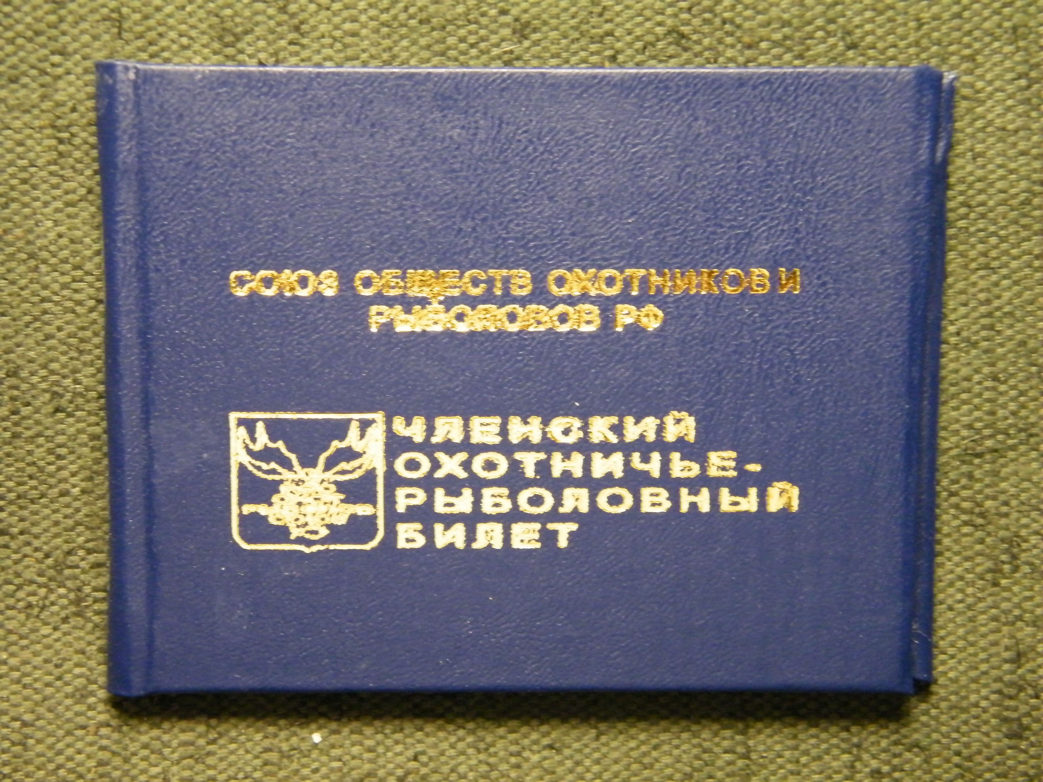 Hunting license, Russia